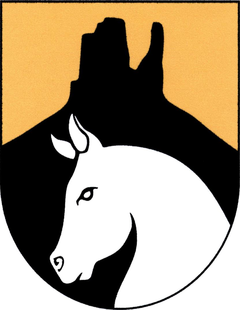 Coat of amrs of Hřebečníky , District Rakovník, Czech Republic